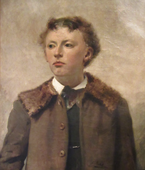 Potrait of young boy by Frans Mortelmans ~1890